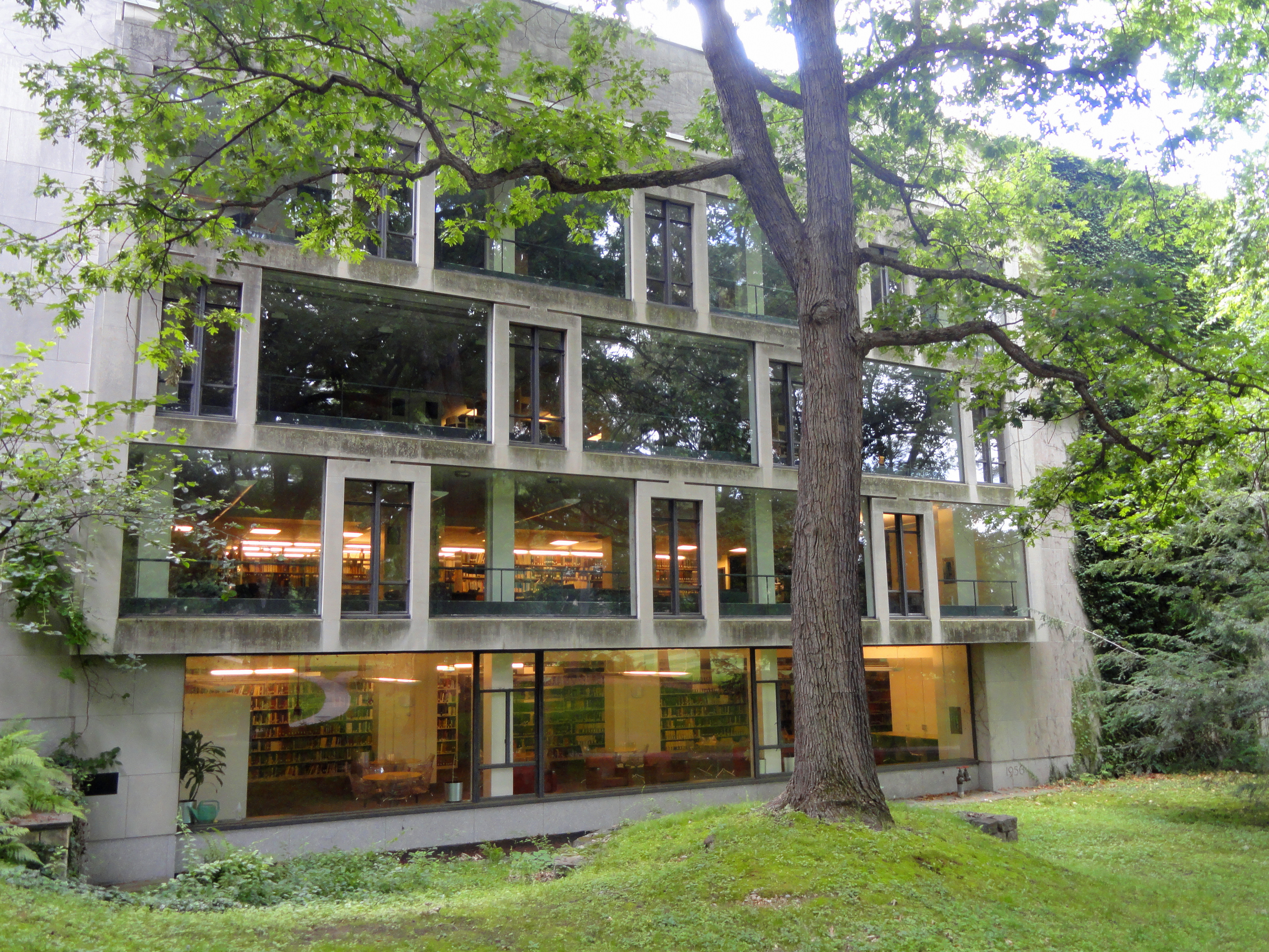 Margaret Clapp Library, Wellesley College, Wellesley, Massachusetts, USA.